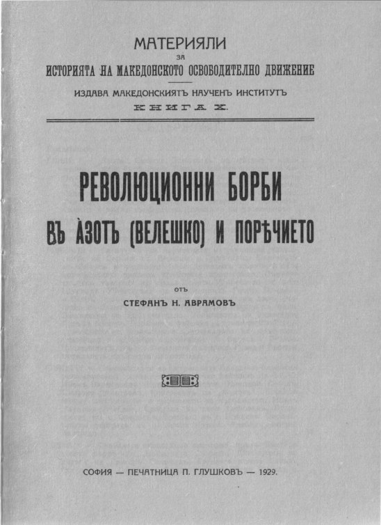 Stefan Avramov's Memoirs